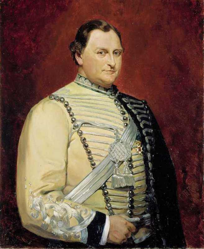 Portrait of Hans Fredrik Grüner. Painting by Hans Fredrik Leganger Finne-Grønn, copy after painting from 1877 by Christian Meyer Ross.